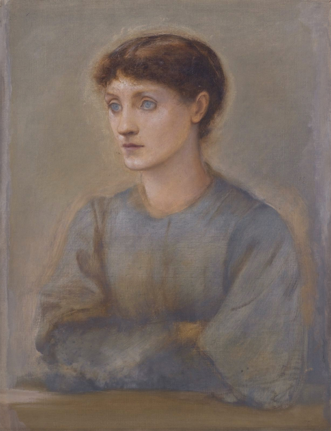 Margaret (1866-1953), daughter of Edward Coley Burne-Jones oil on canvas 57 by 44cm